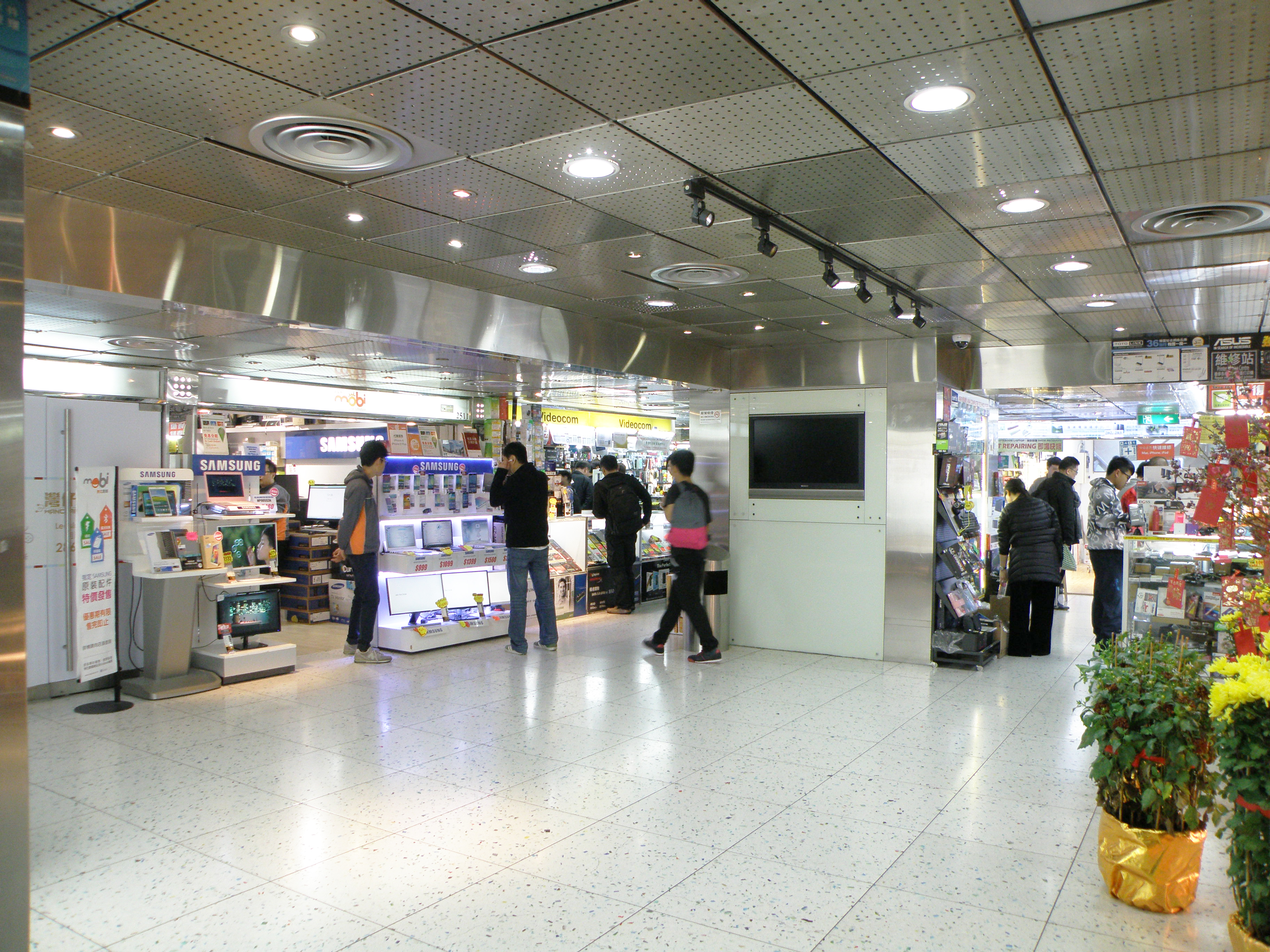 Computer Centre in Wan Chai, Hong Kong.